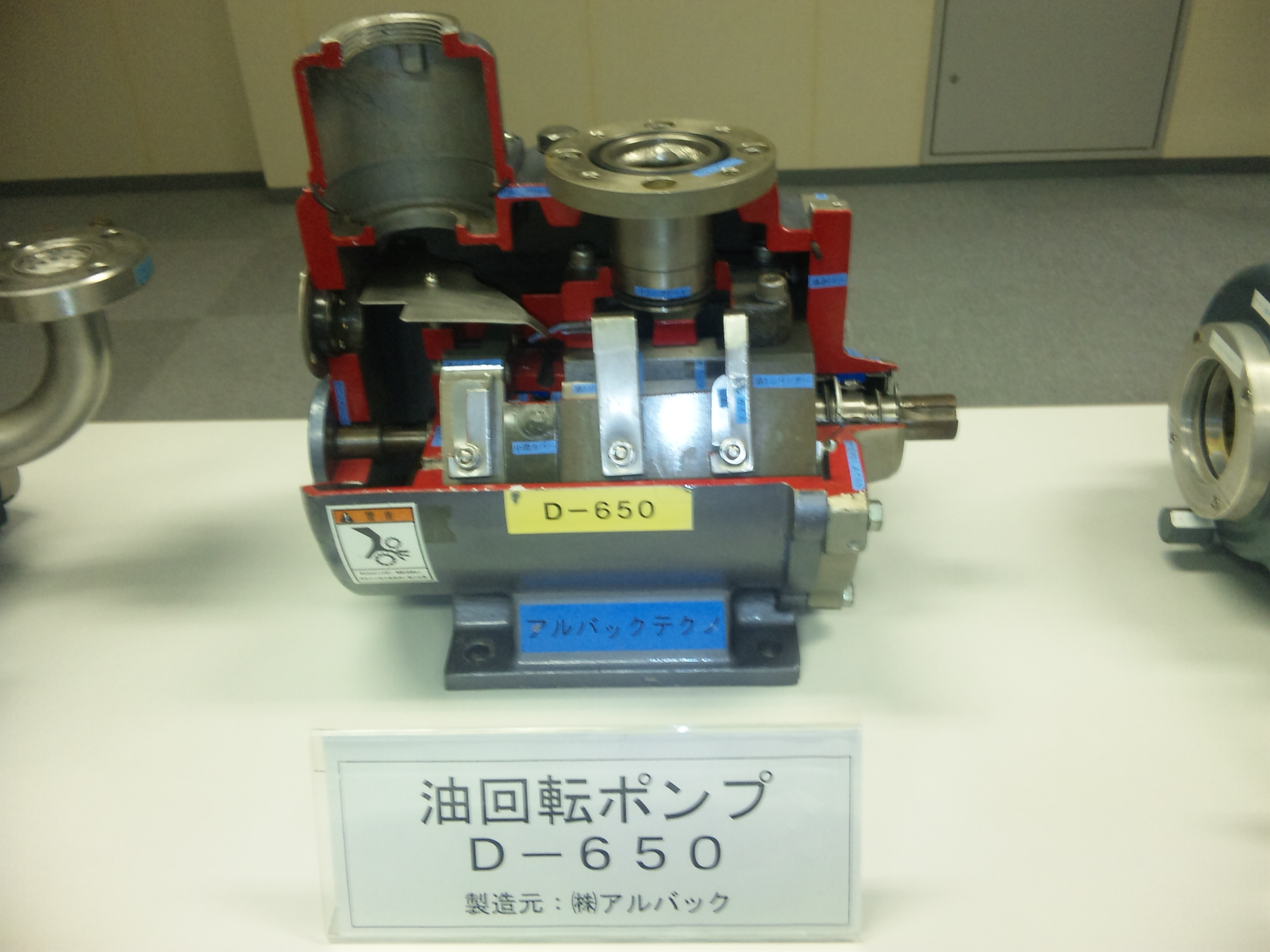 Ulvac rotary pump D-650 cutaway